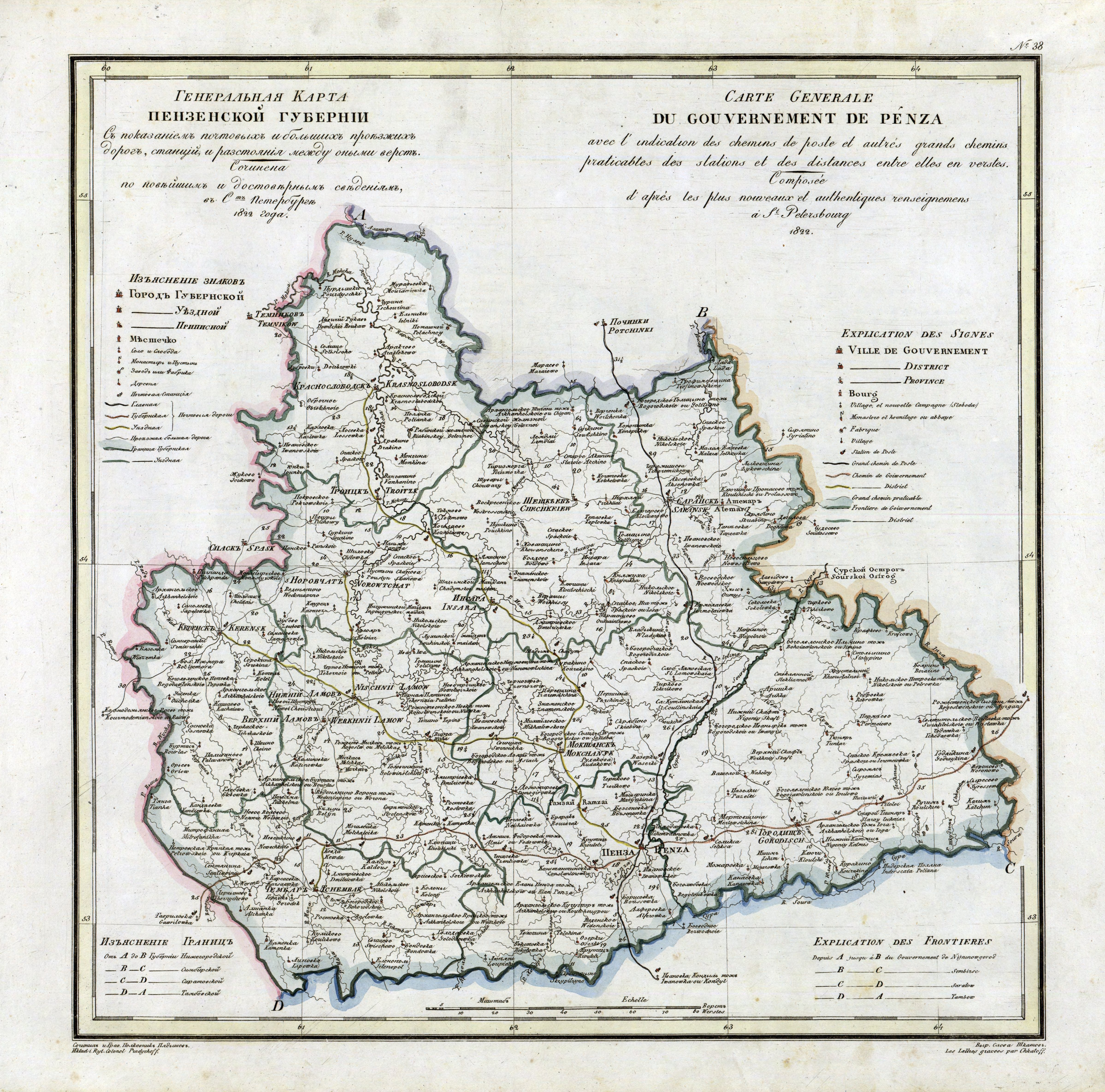 Penza governorate